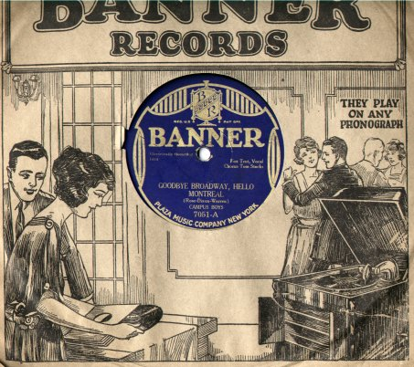 Banner Records sleeve of an 78rpm record